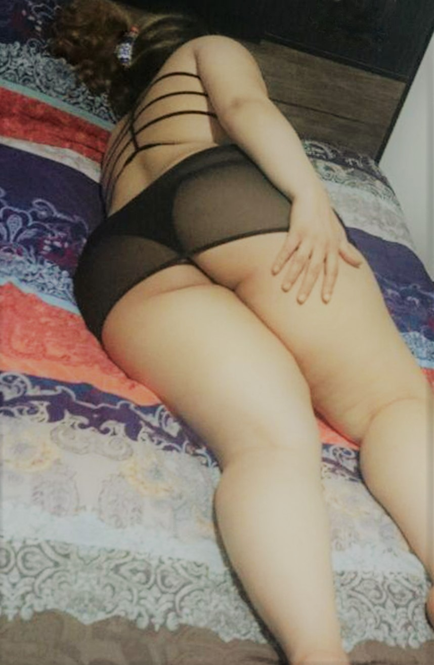 Iranian (Persian) prostitute in Berlin, May 2019. She allowed me to take pictures and share.